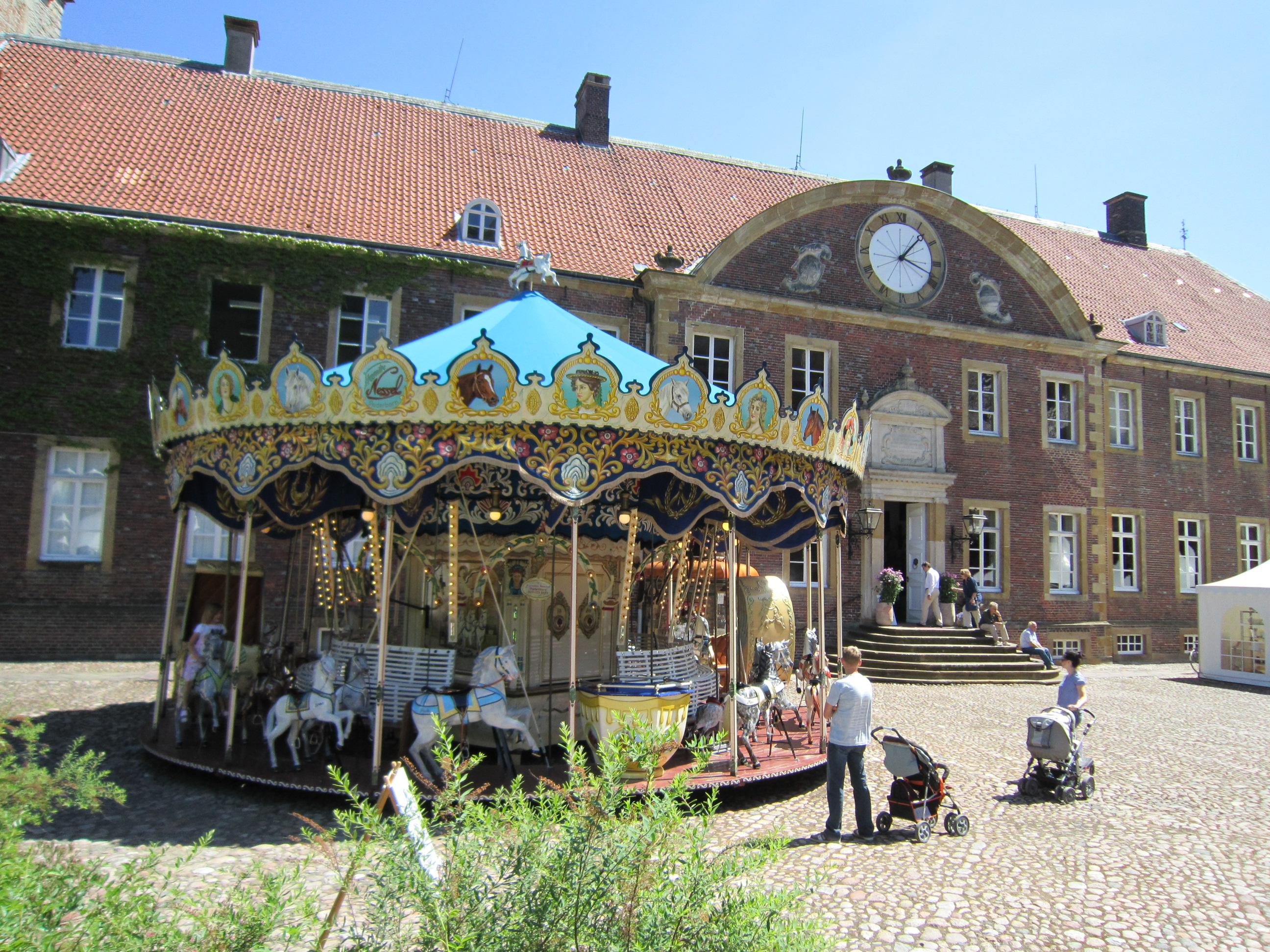 Garden festival at Rheda Castle